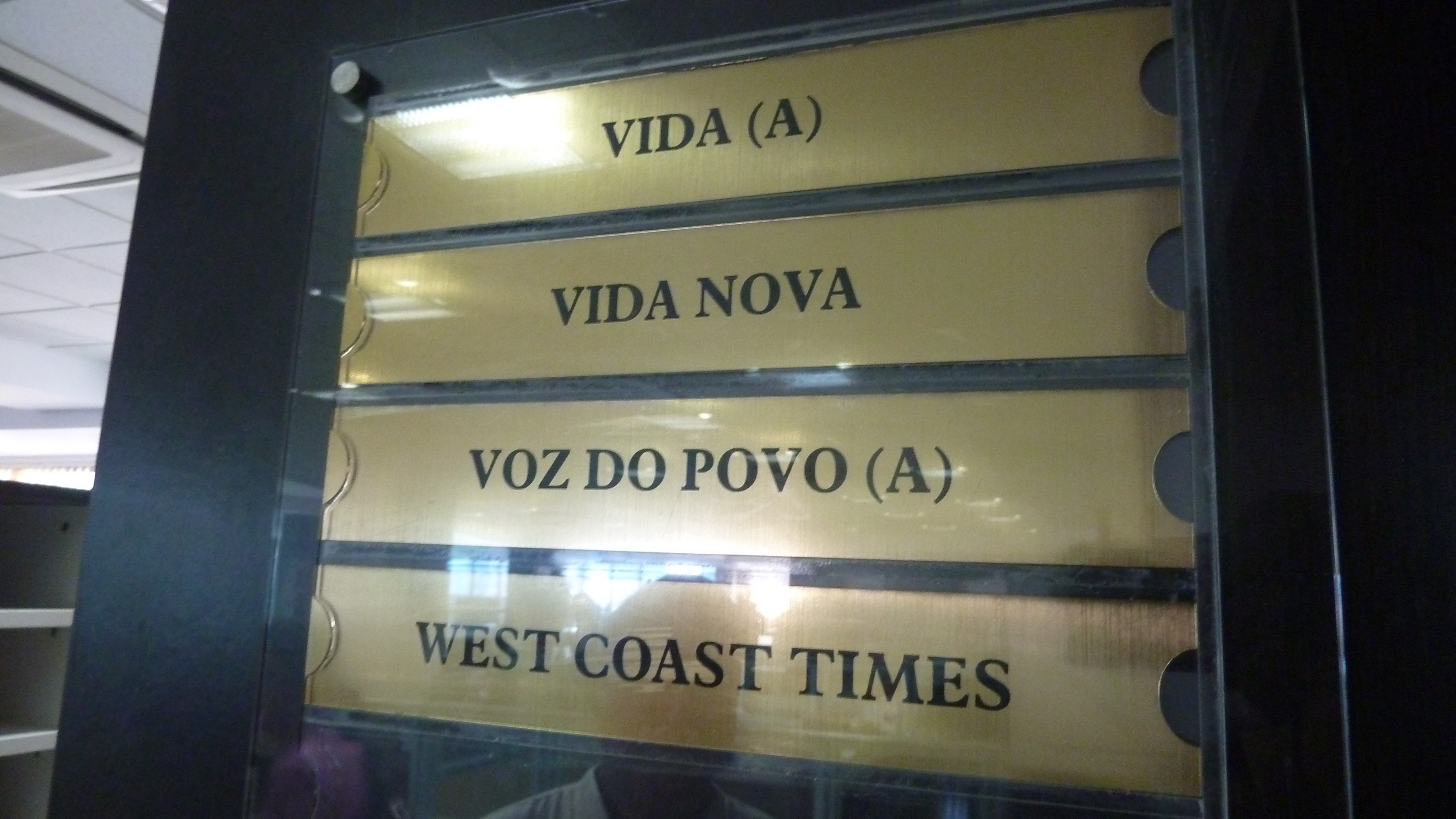 State Central Library, Goa Dec 27, 2012